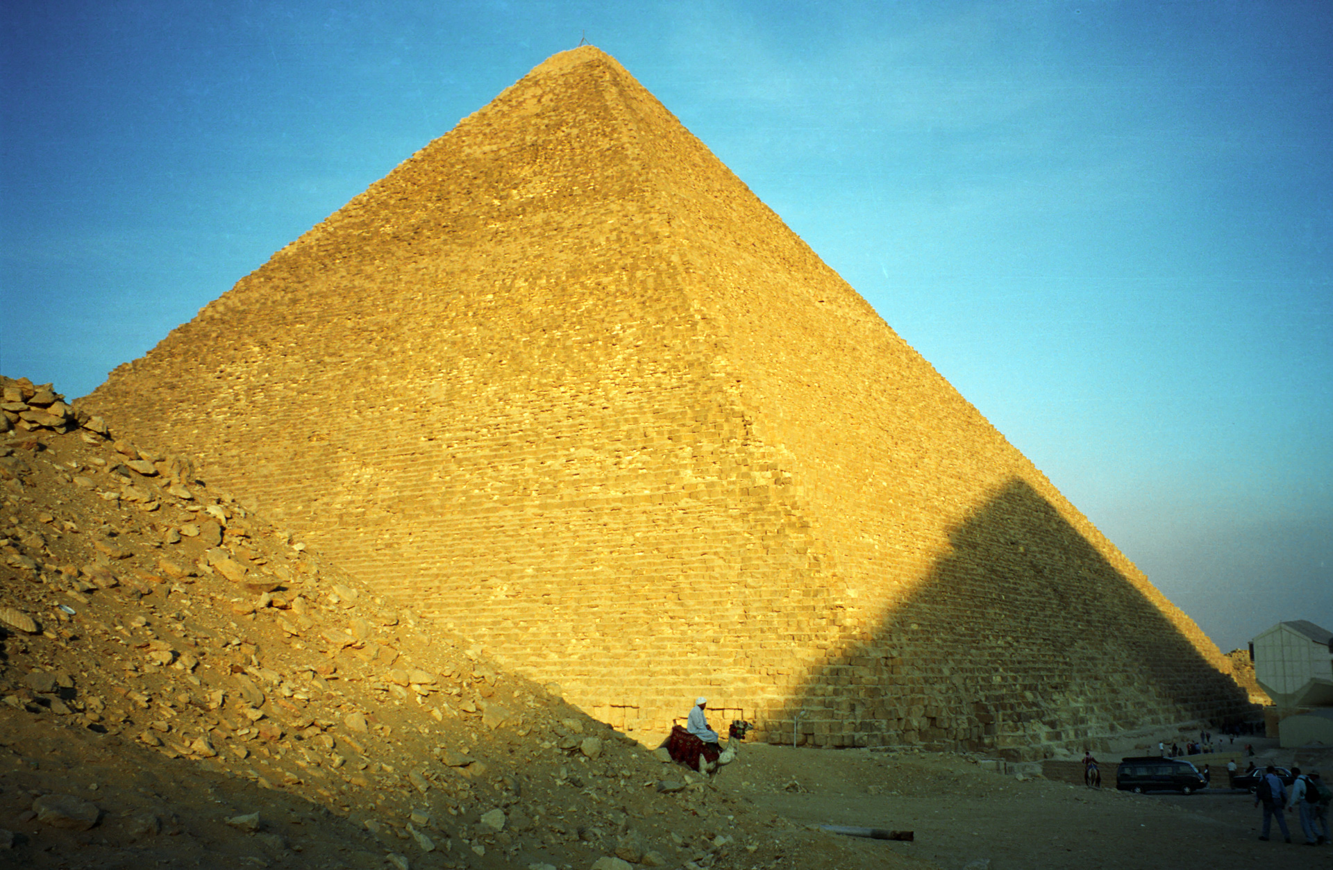 Great Pyramid of Giza